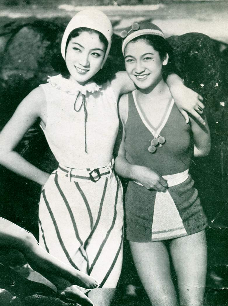 L. to R. :Kiyo Kuroda and Setsuko Hara in Atami (1936)